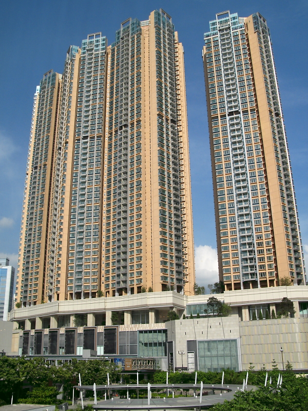 Hong Kong Vision City in Tsuen Wan